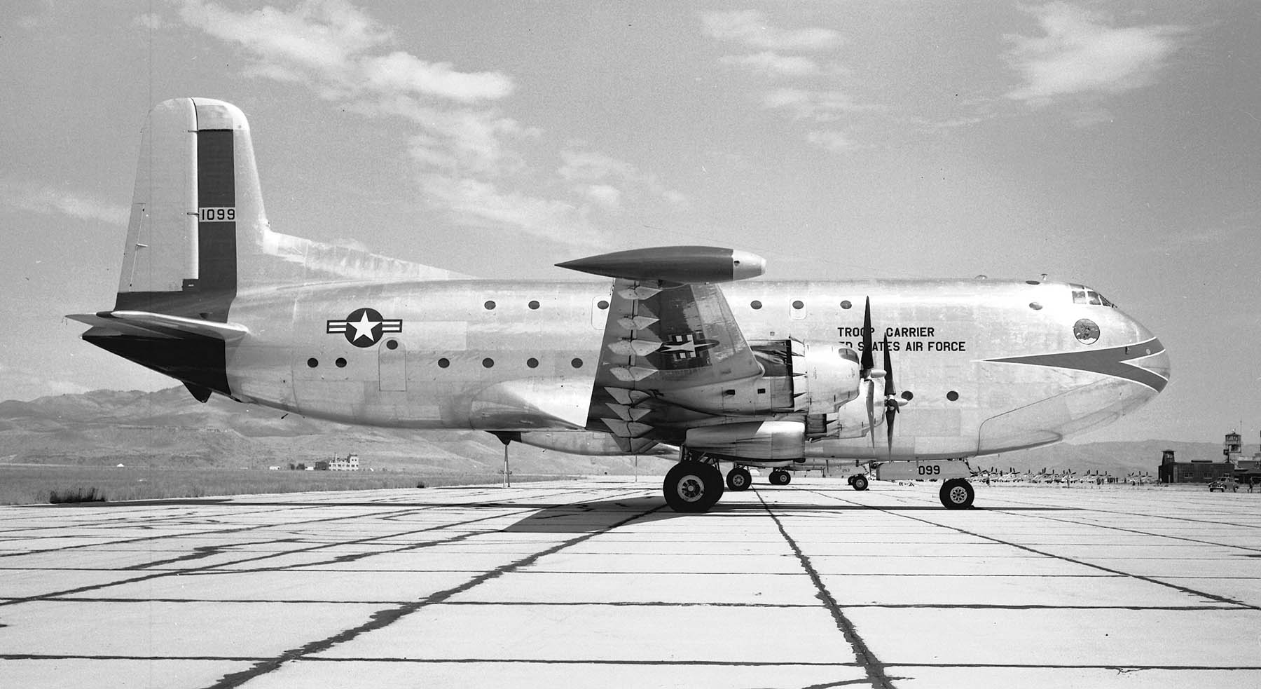 C-124A-DL 51-099 at Gowen Field Air National Guard Base, Boise, Idaho in 1952.